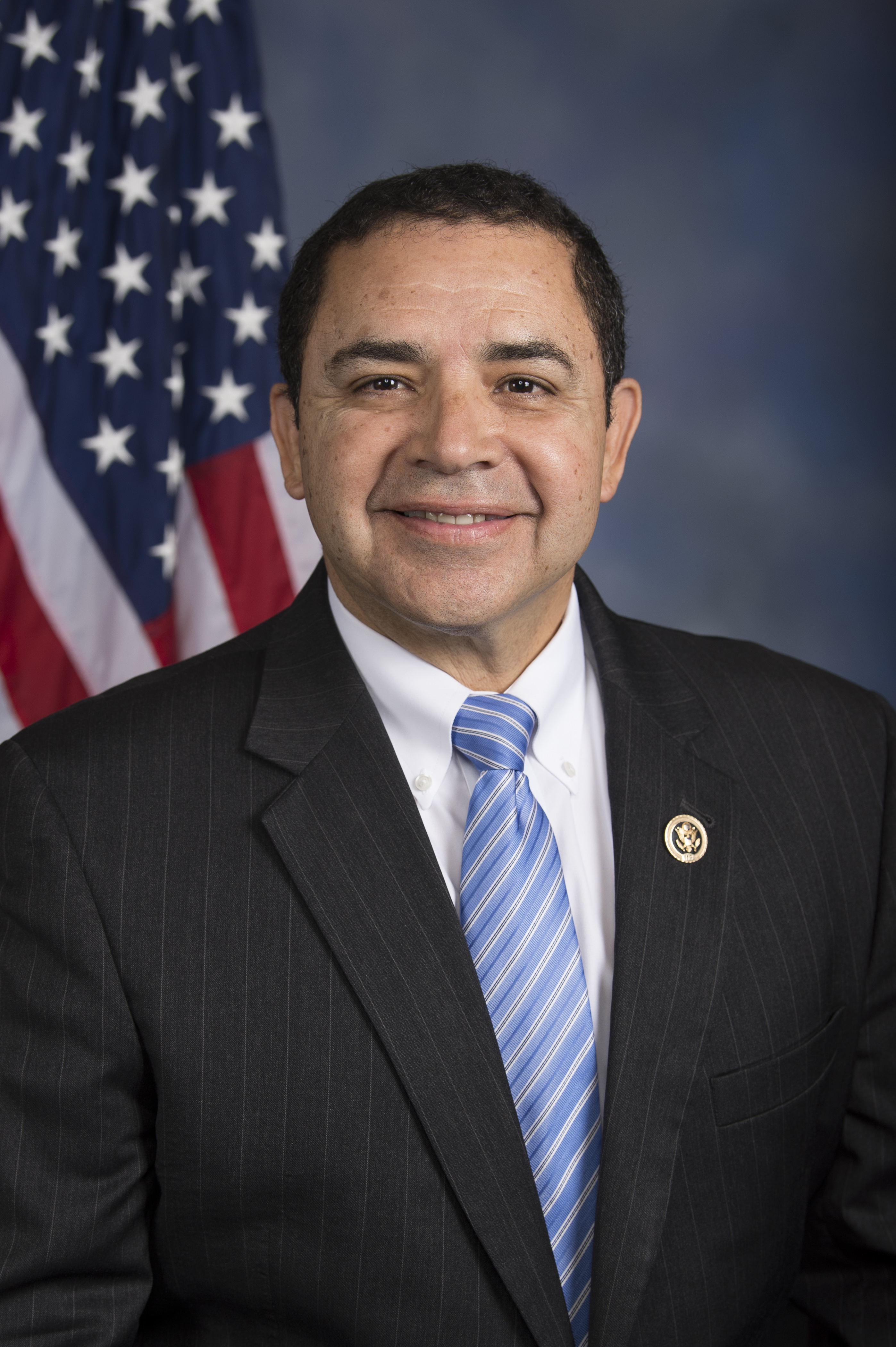 Official portrait of US Rep Henry Cuellar of Texas